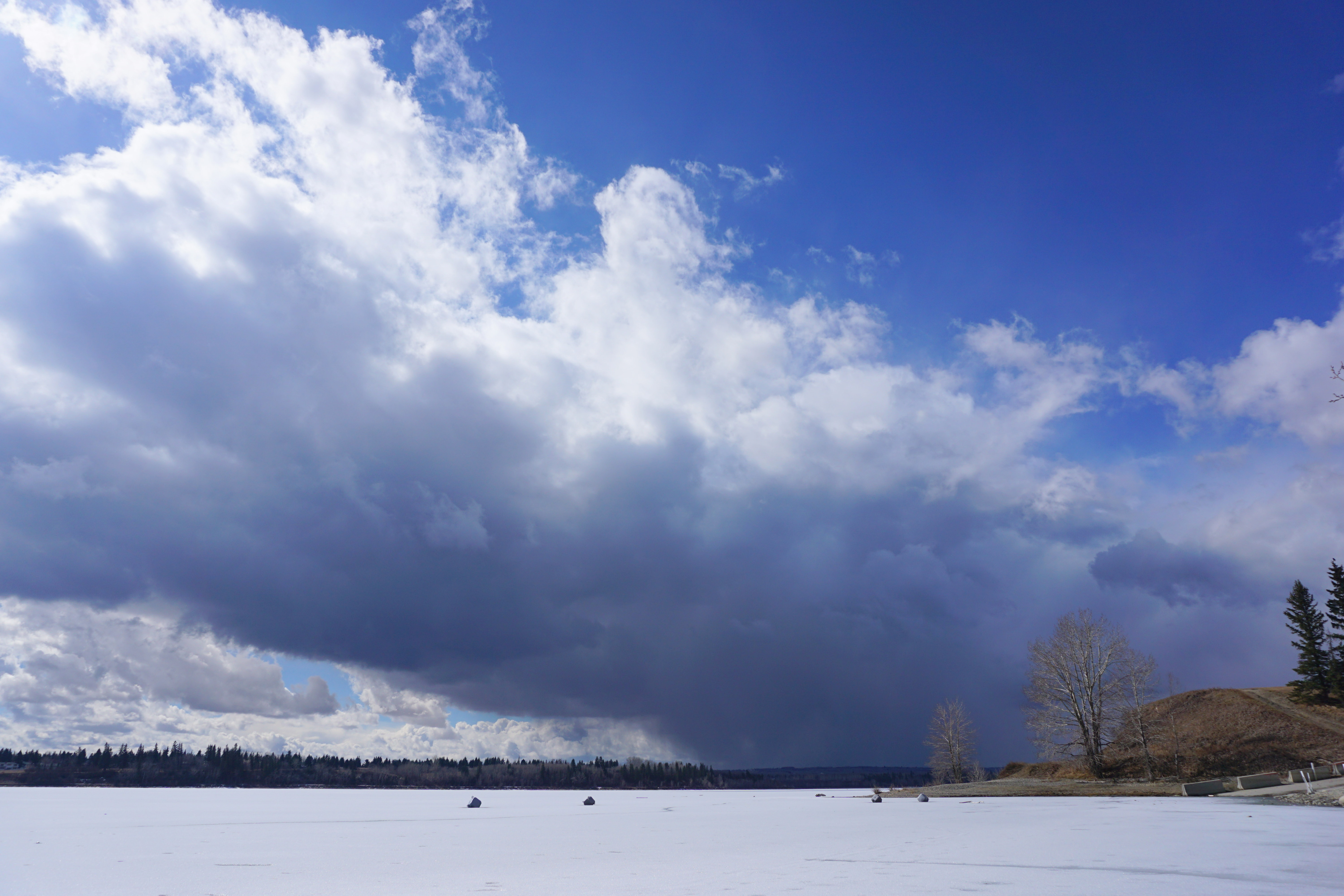 Glenmore Reservoir, Calgary, Alberta on March 25.